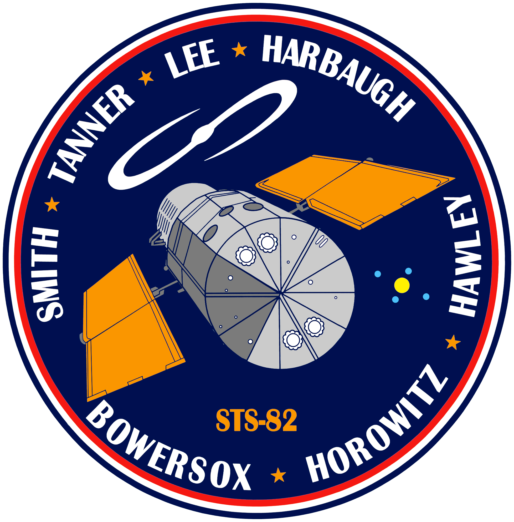 STS-82 Mission Insignia STS-82 is the second mission to service the Hubble Space Telescope (HST). The central feature of the patch is HST as the crew members will see it through Discovery's overhead windows when the orbiter approaches for rendezvous, retrieval and a subsequent series of spacewalks to perform servicing tasks. The telescope is pointing toward deep space, observing the cosmos. The spiral galaxy symbolizes one of HST's important scientific missions, to accurately determine the cosmic distance scale. To the right of the telescope is a cross-like structure known as a gravitational lens, one of the numerous fundamental discoveries made using HST Imagery. The names of the STS-82 crew members are arranged around the perimeter of the patch with the extravehicular activity's (EVA) participating crew members placed in the upper semicircle and the orbiter crew in the lower one.